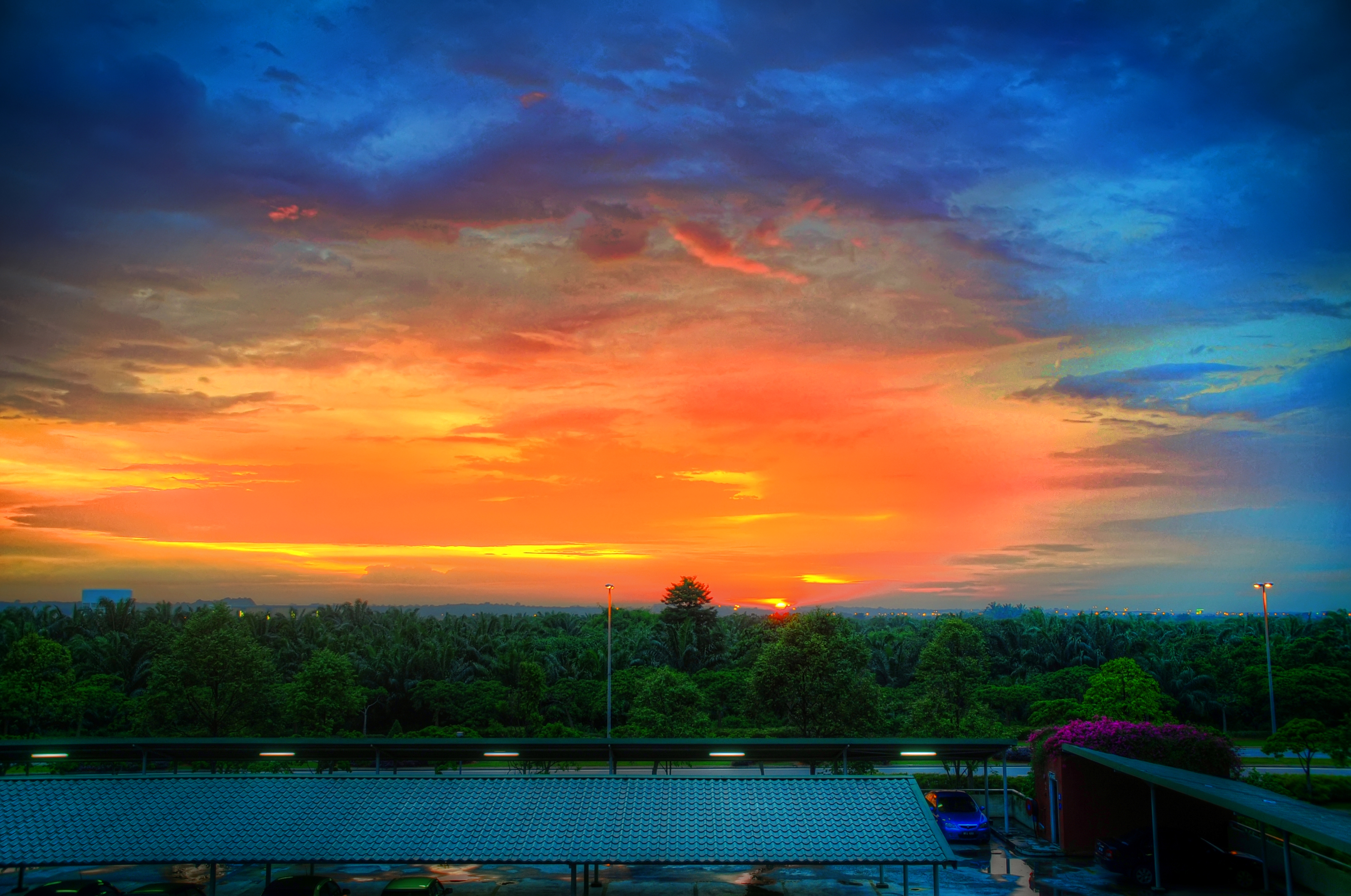 Sunset seen from Limkokwing University of Creative Technology, Cyberjaya.